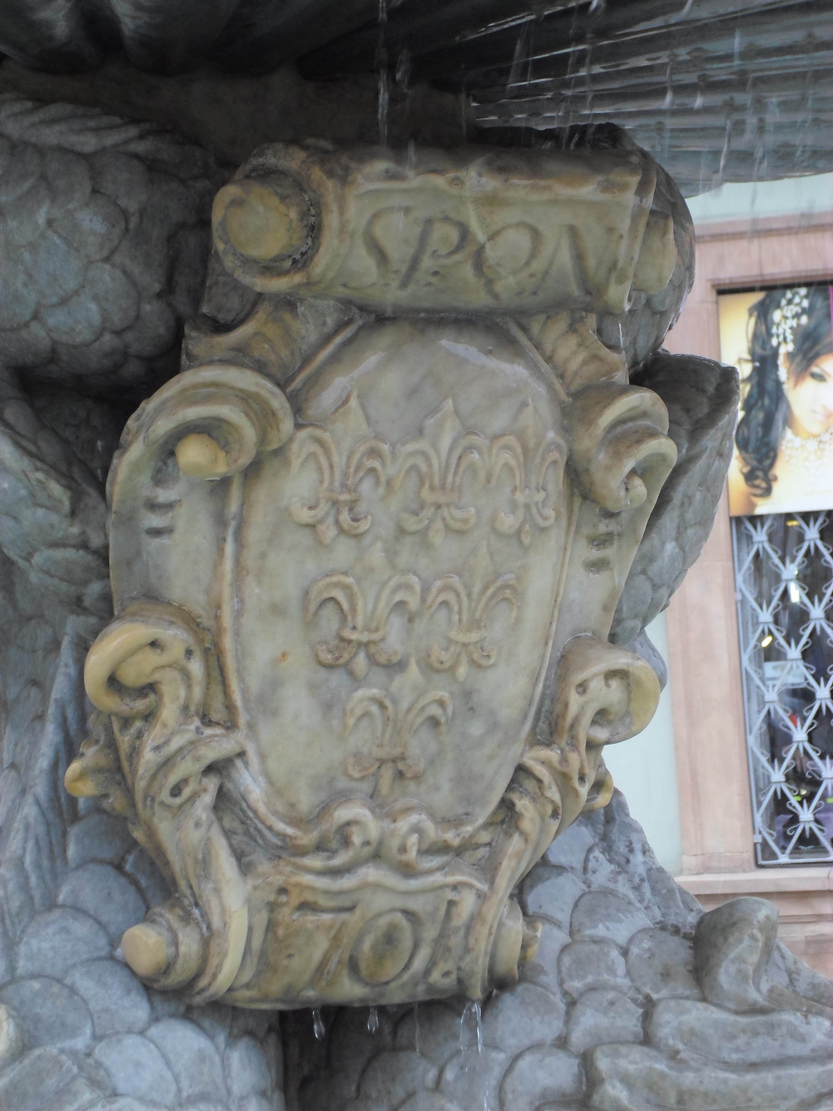 Latin Inscription on the Triton Fountain in Nysa, Poland